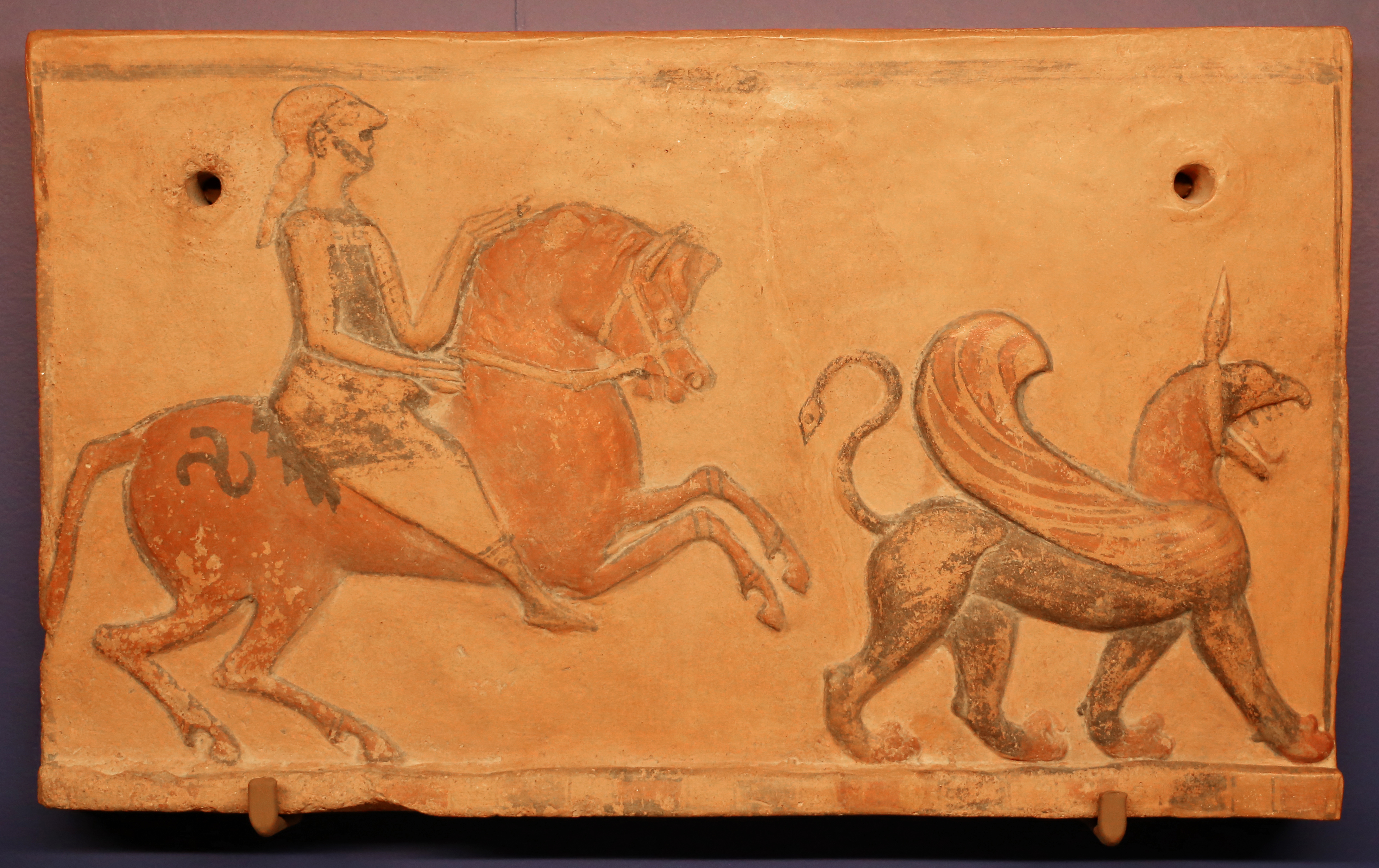 Ancient Greek antiquities in the Rijksmuseum van Oudheden